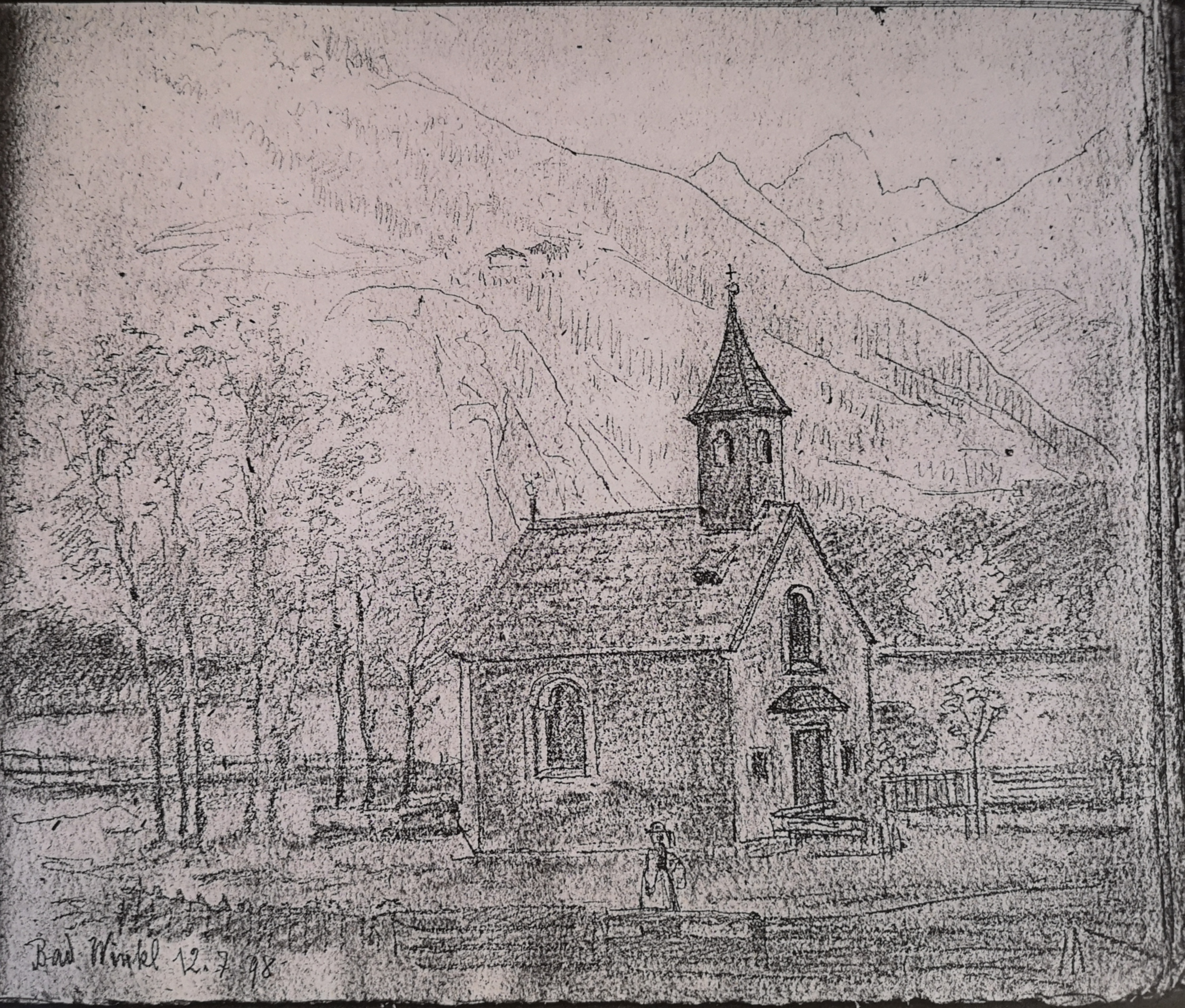 Drawing from 1898 by Oberst Schwenninger from Munich depicting the Johannes Nepomuk chapel in Bad Winkel, Kematen-Sand in Taufers (South Tyrol)